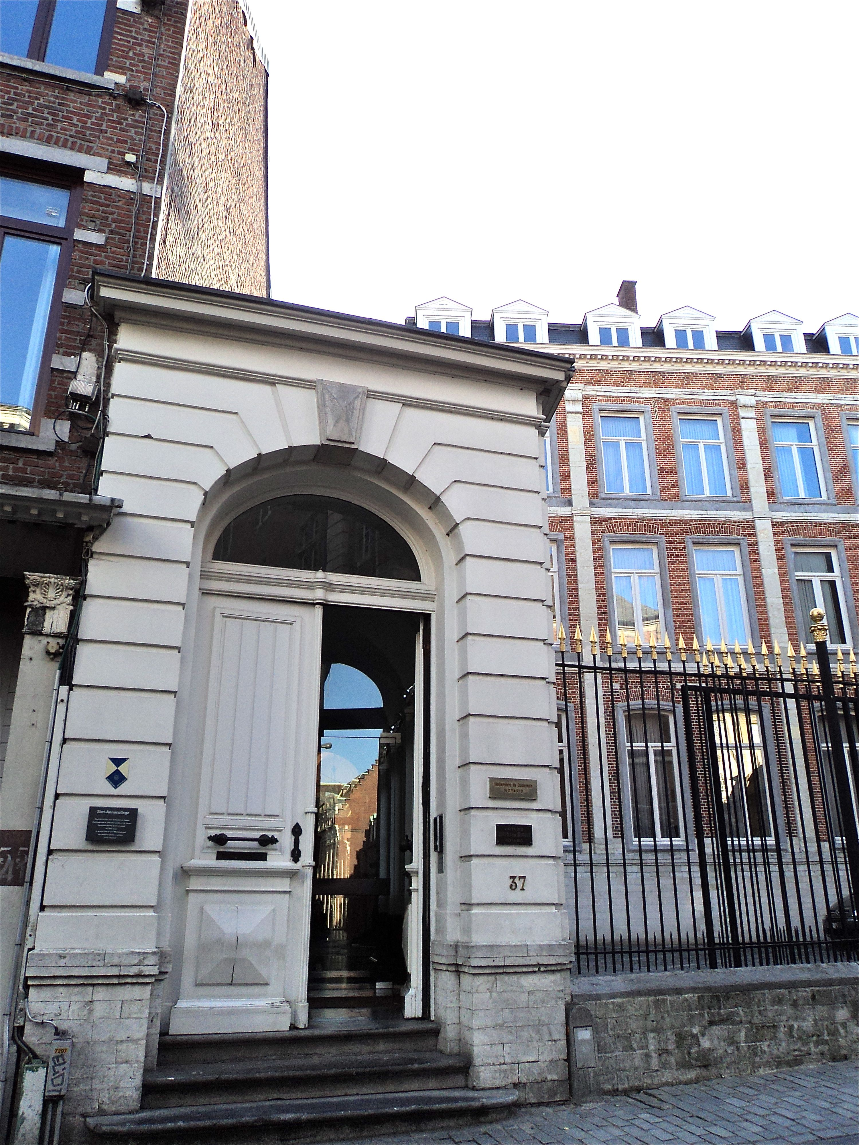 Saint Anna's College, Naamsestraat 39, Leuven